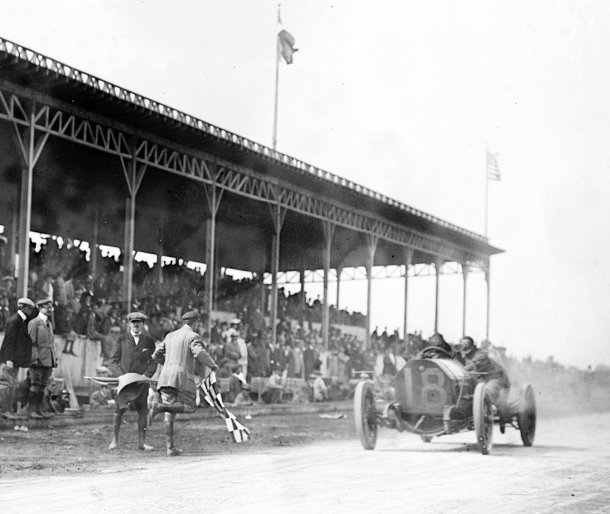 Alco Six racer "Black Beast" driven by Harry Grant (riding mechanic Frank Lee) winning the 1910 Vanderbilt Cup again after their 1909 success.